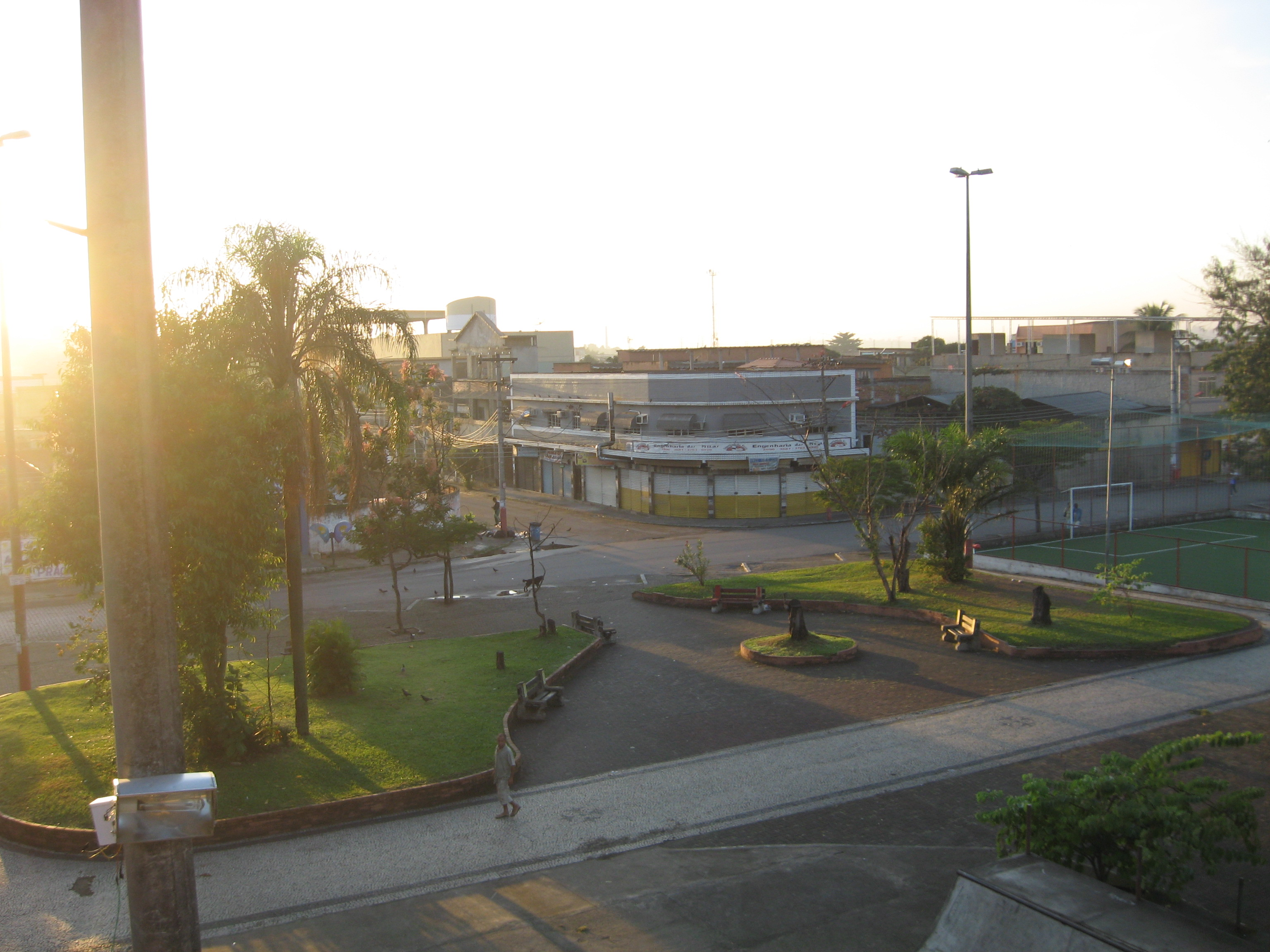 Central square in Mesquita, Rio de Janeiro, Brazil